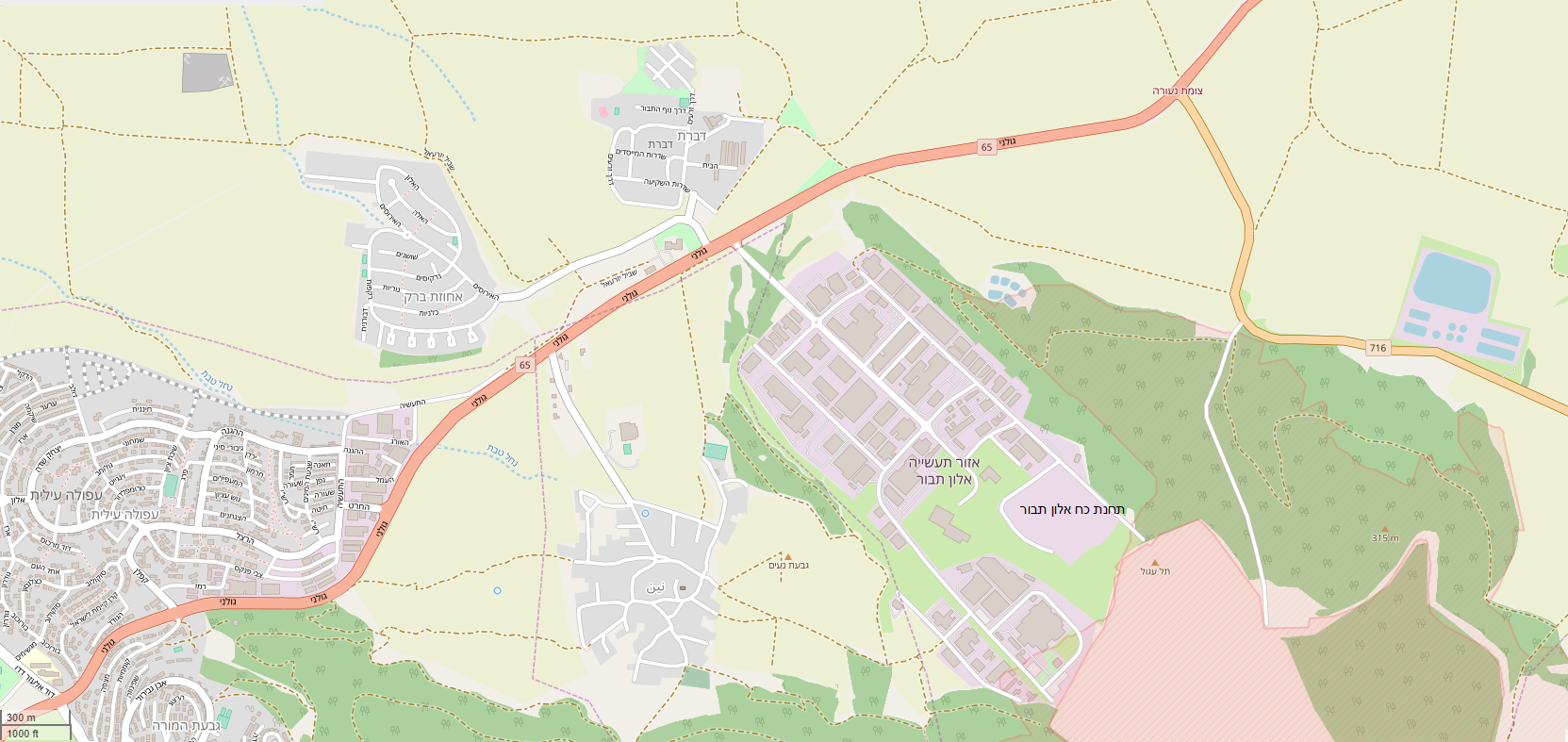 Map of Alon Tavor Power plant area